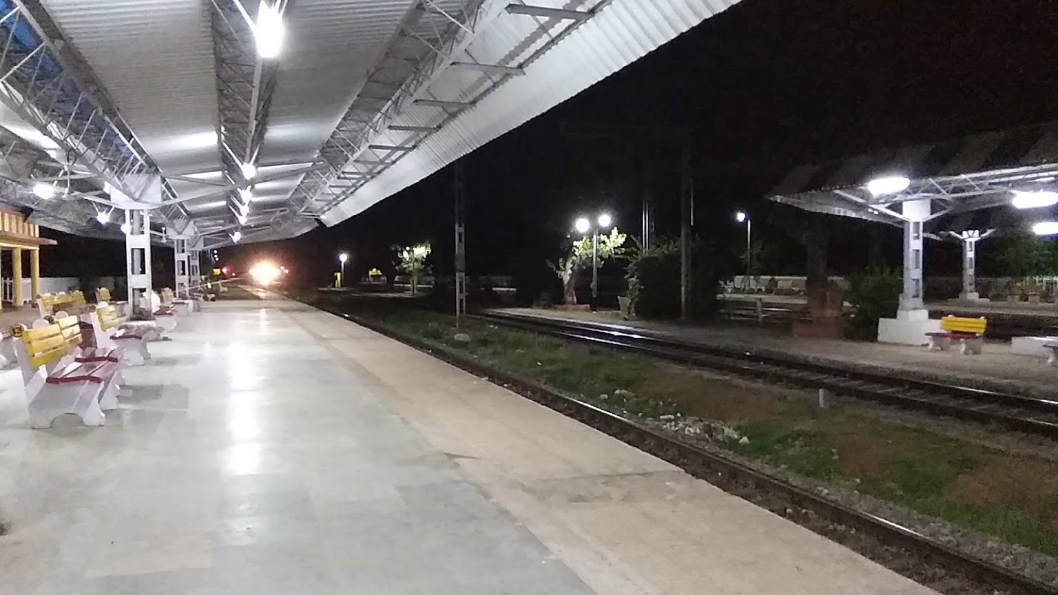 This is the Picture of Chilka railway station